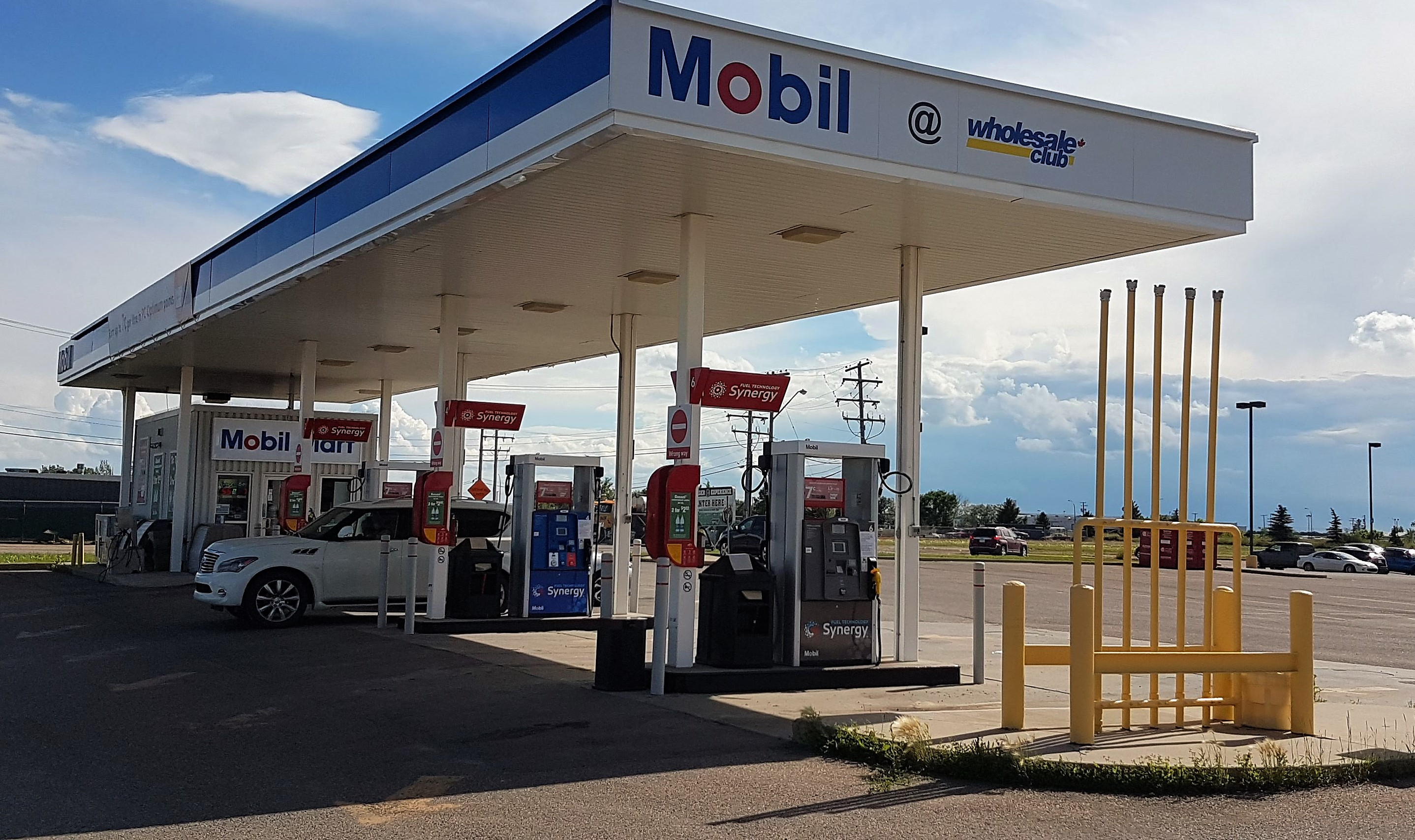 Mobil gas station at Wholesale Club in Saskatchewan.